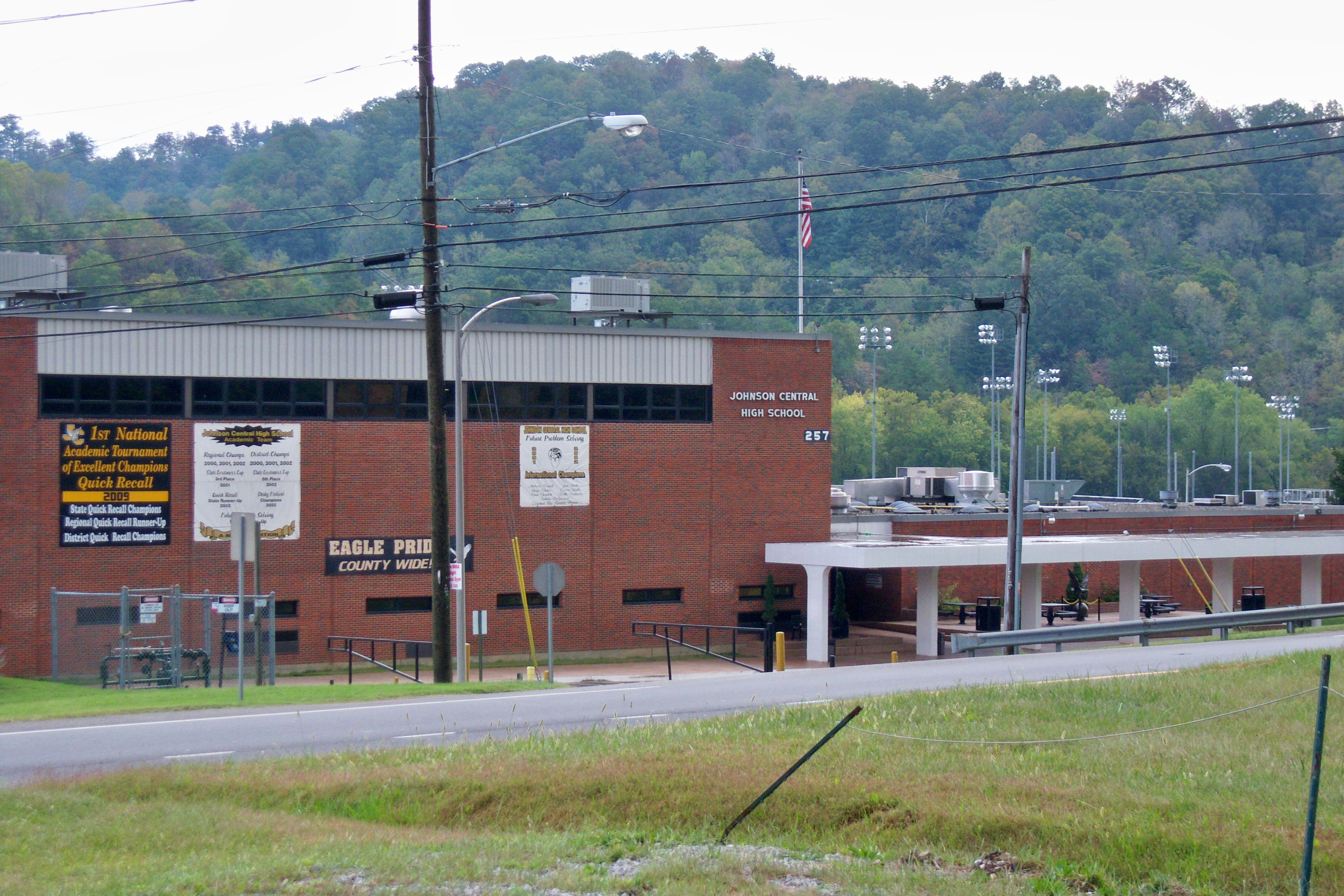 Johnson Central High School as viewed from BB&T in Paintsville, Kentucky.